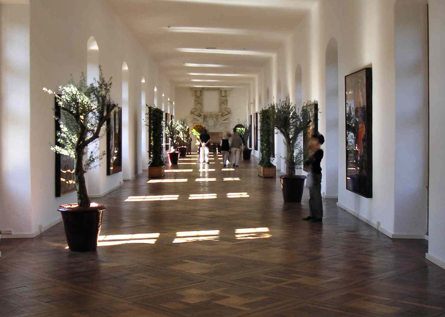 First floor of the gallery of château de Chenonceau, art exhibition